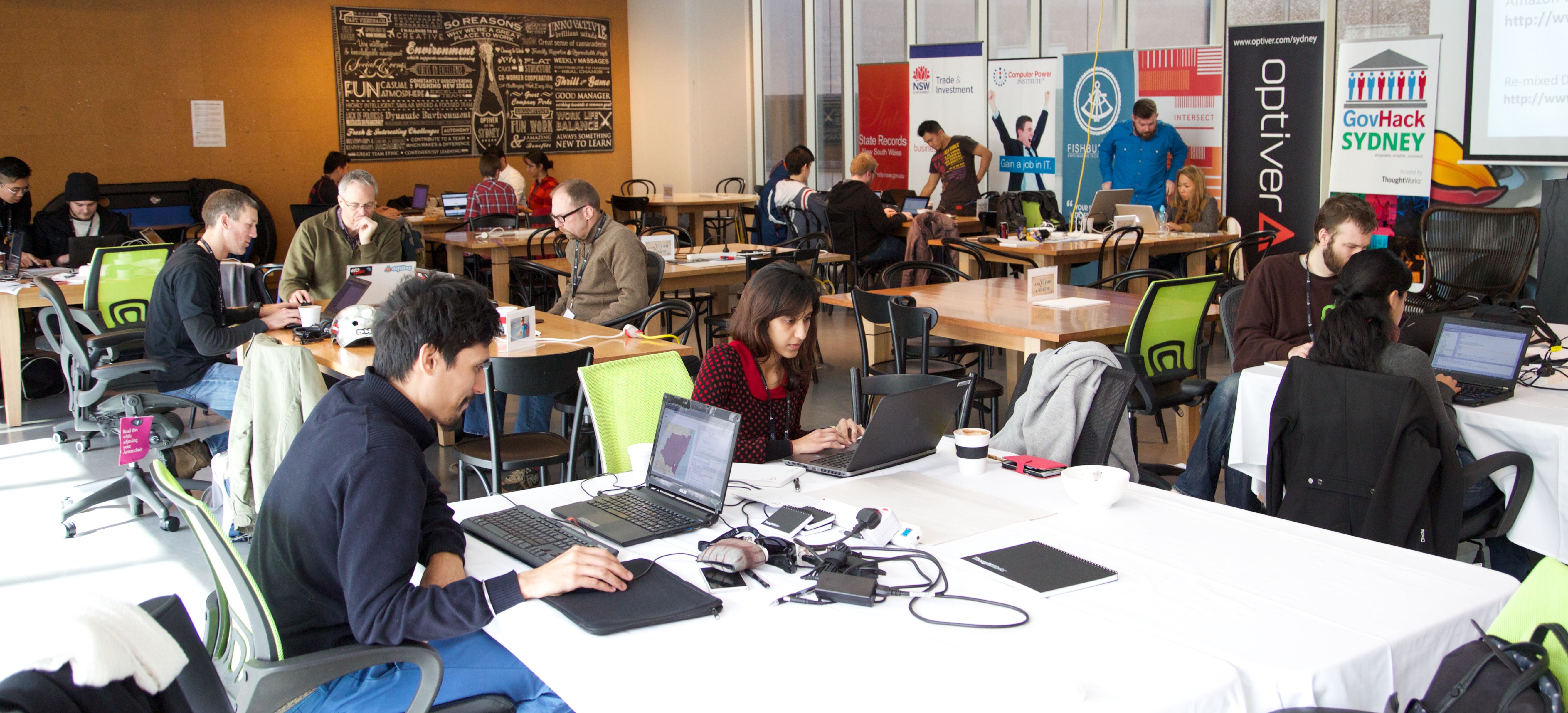 Sydney Participants at the Sydney event of GovHack 2014, held at Optiver.